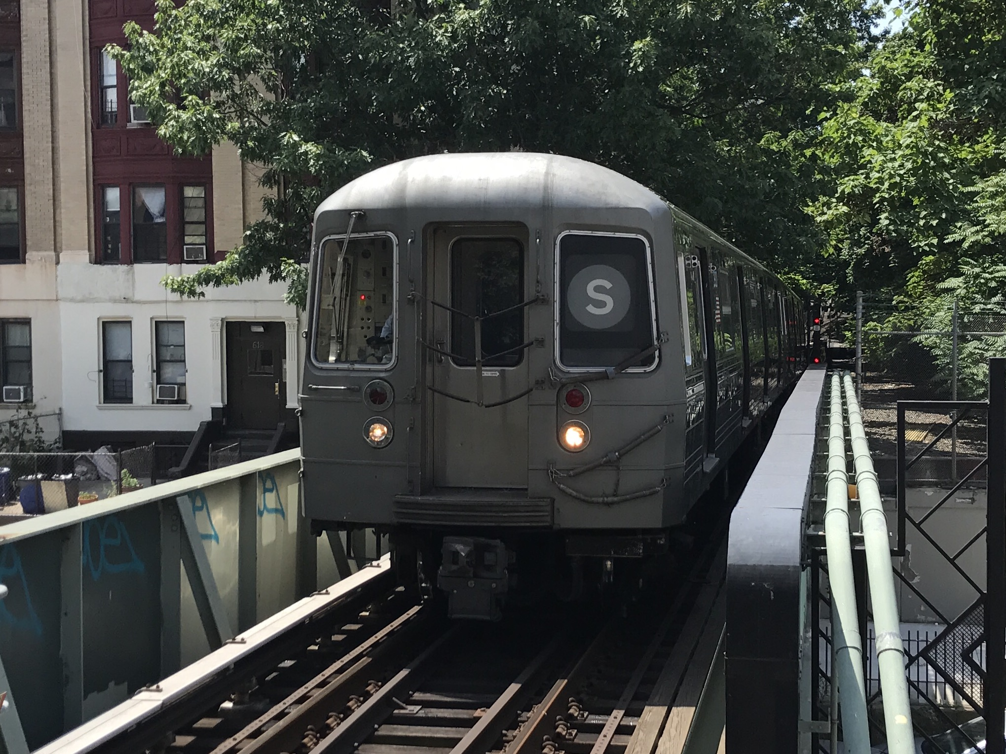 Franklin Avenue Shuttle train arrives Park Place.